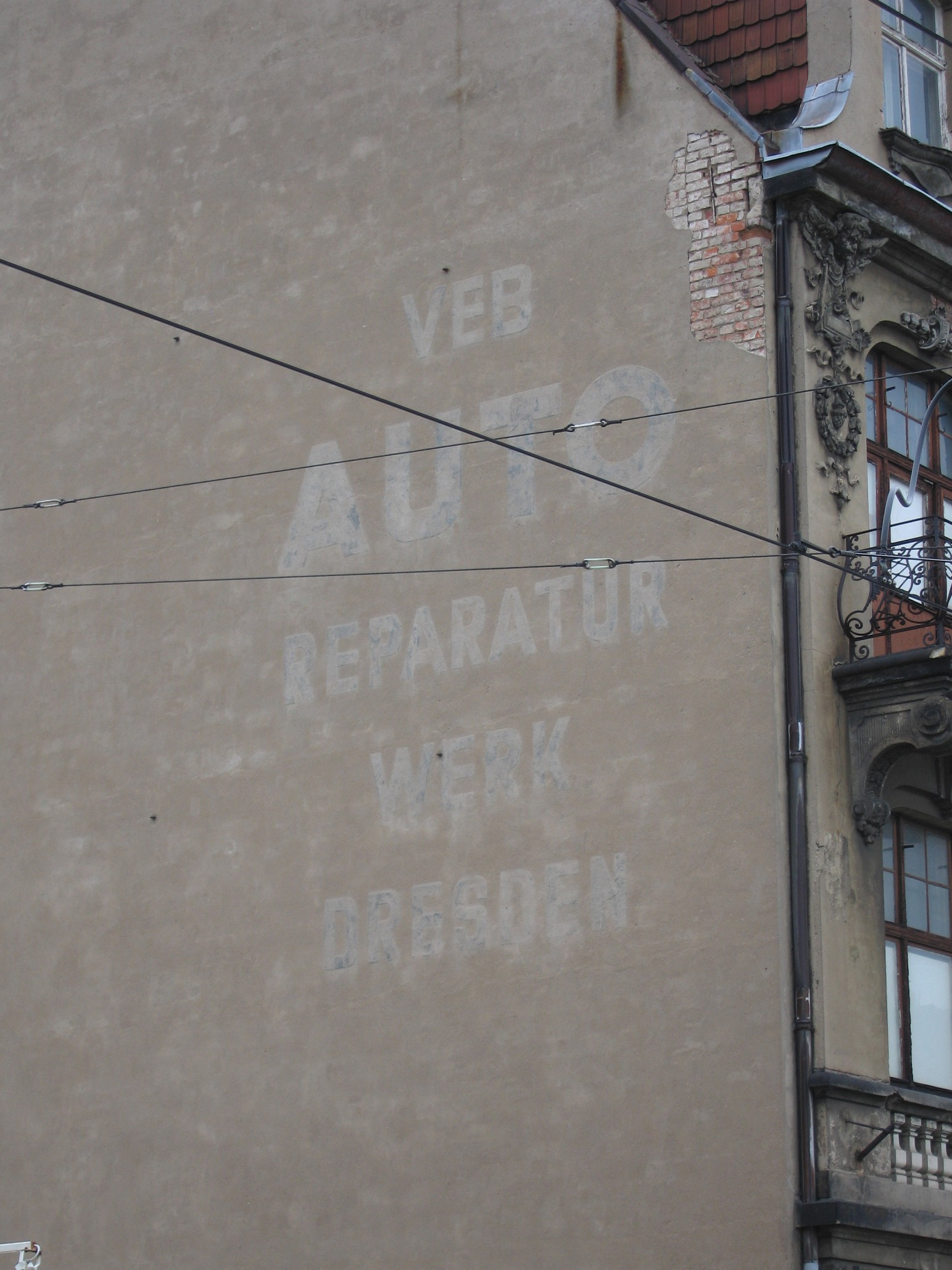 Traces of VEB Autorepaturwerk Dresden, Bürgerstraße 56, Dresden, Germany